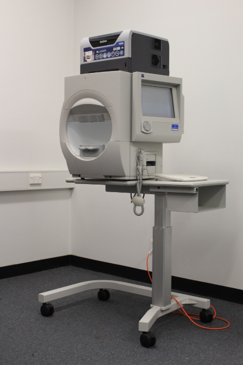 Humphrey VF